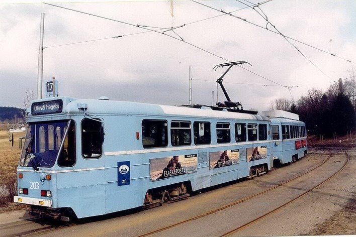 Oslo Sporveier SM83 no. 203 tram and trailer the loop at Muselunden on the Sinsen Line